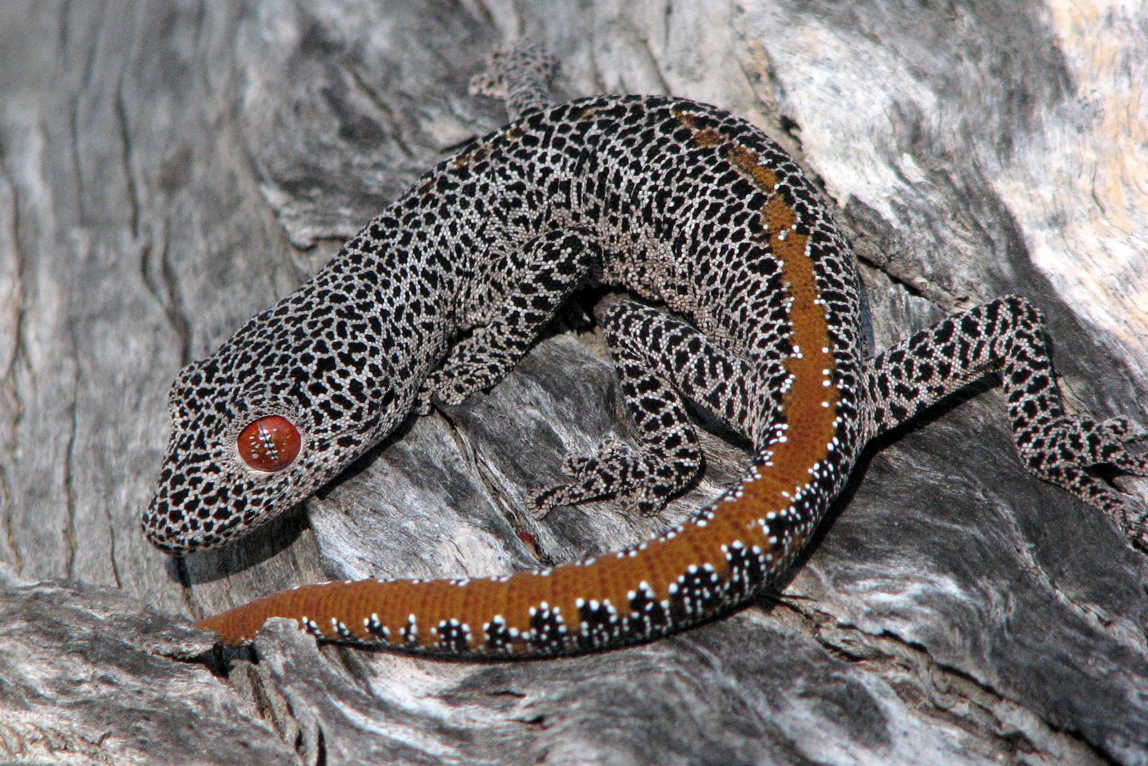 Picture of Golden Tailed Gecko (Strophurus taenicauda) sitting on a log.